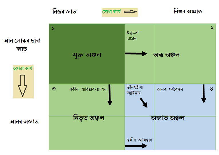 Complete Johari Window Model in Assamese text.